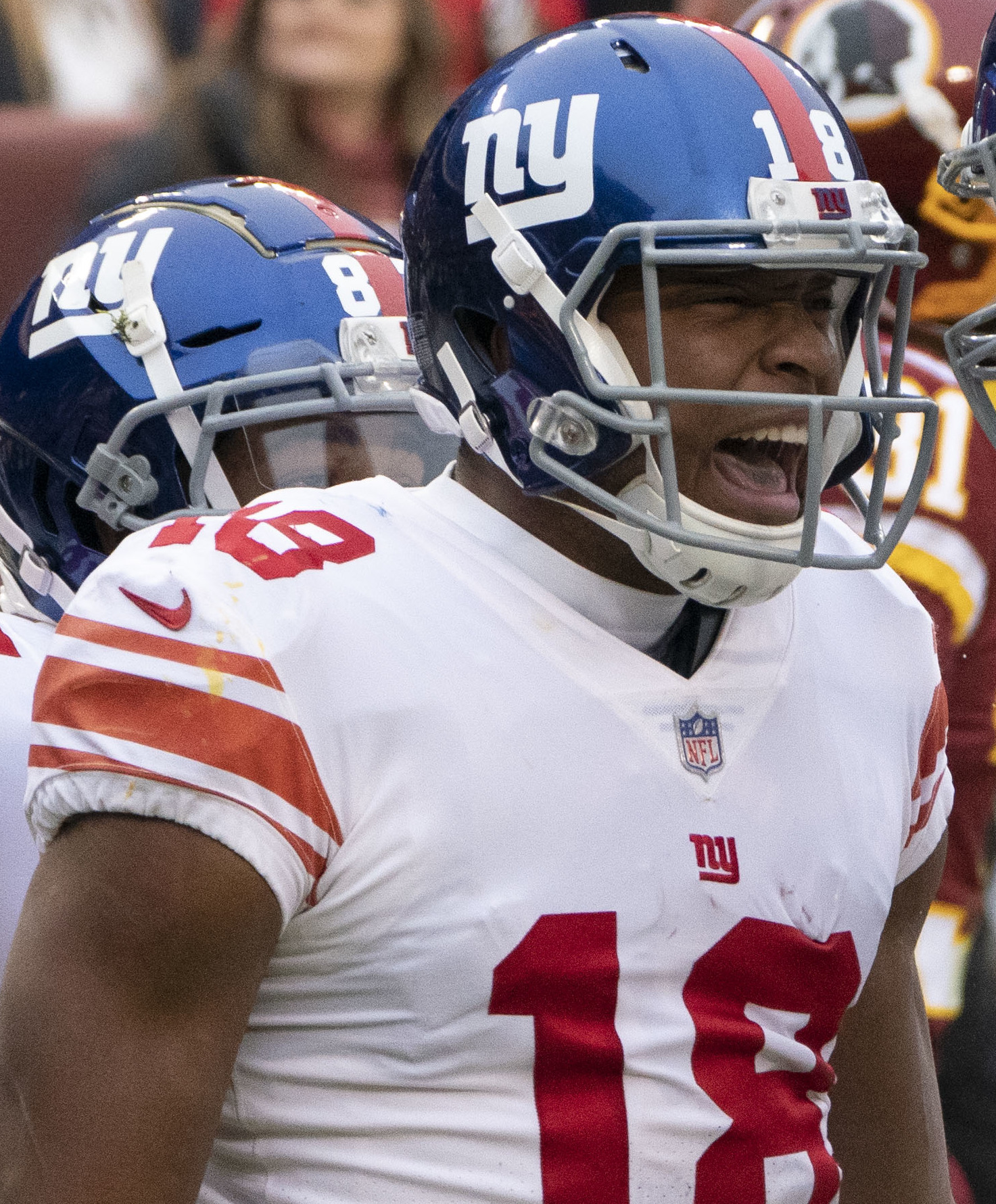 Bennie Fowler III, Evan Engram and Eli Manning with the New York Giants at FedExField in December 2018.